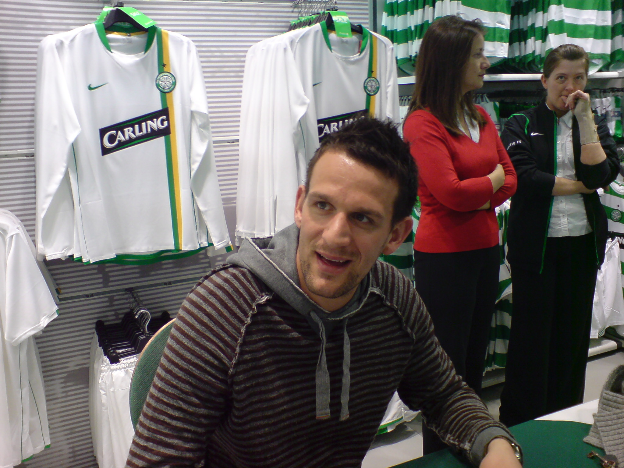 Dutch footballer Jan Vennegoor of Hesselink during an autograph session in Celtic FC